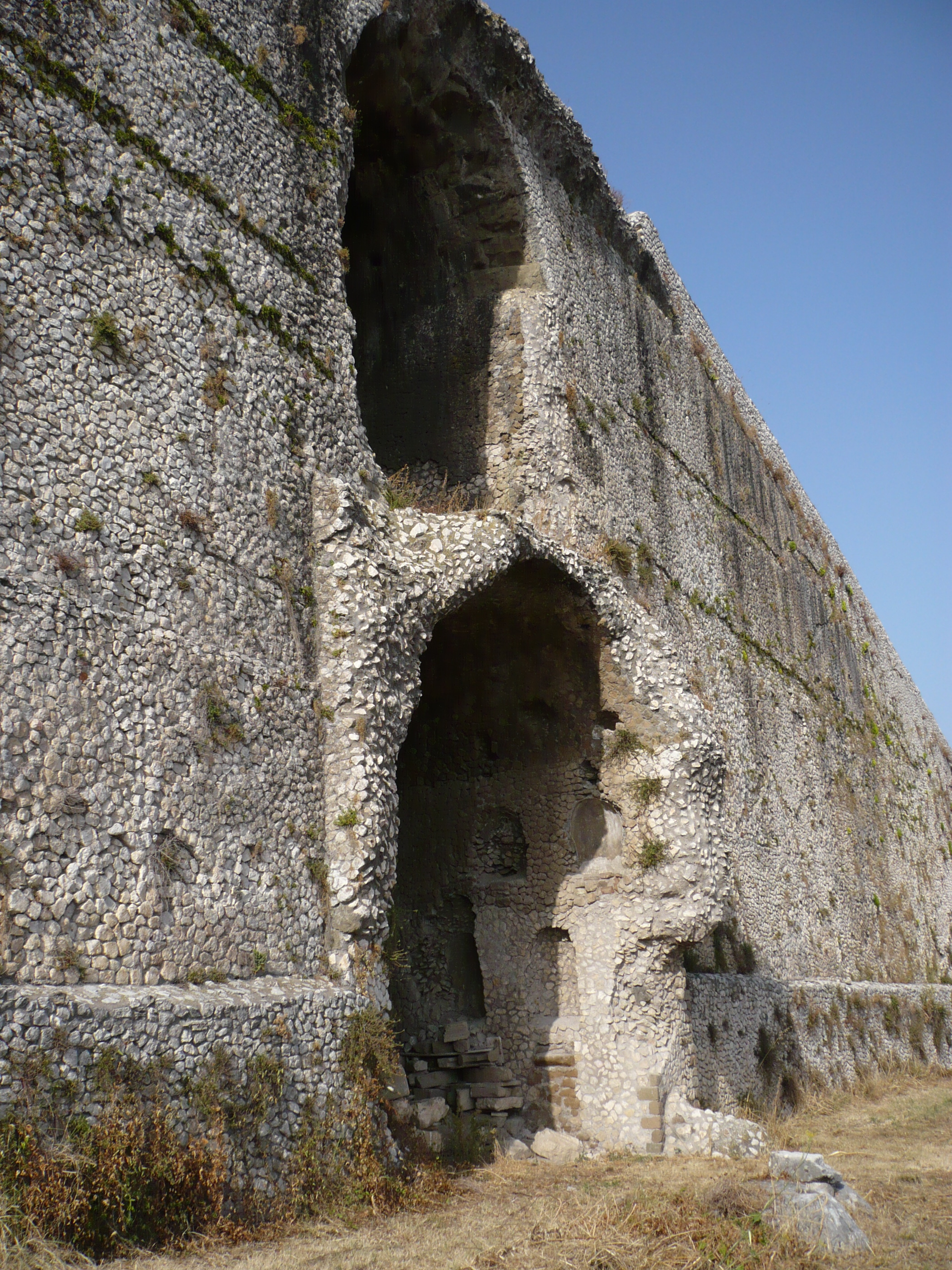 Ruins of the Sanctuary of Fortuna Primigenia, Palestrina